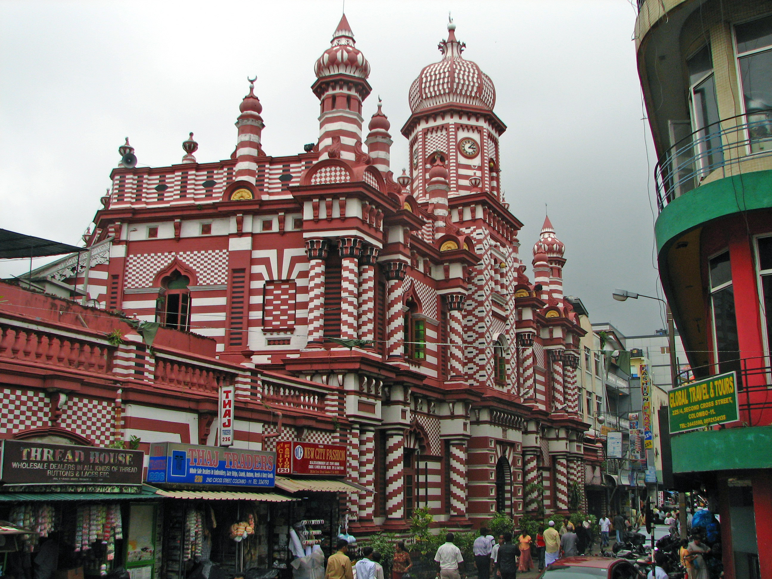 The wonderfully painted Jami-Ul-Alfar Mosque (Pettah Mosque) in the Pettah harbour area near the Fort Station.